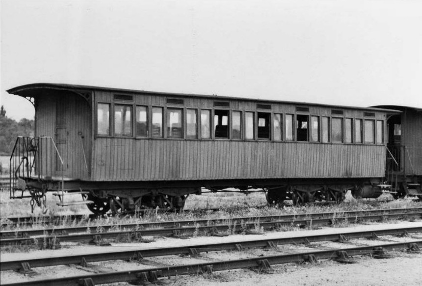 ex SE Allier coach of Blanc - Argent Railway in Romorantin Station.